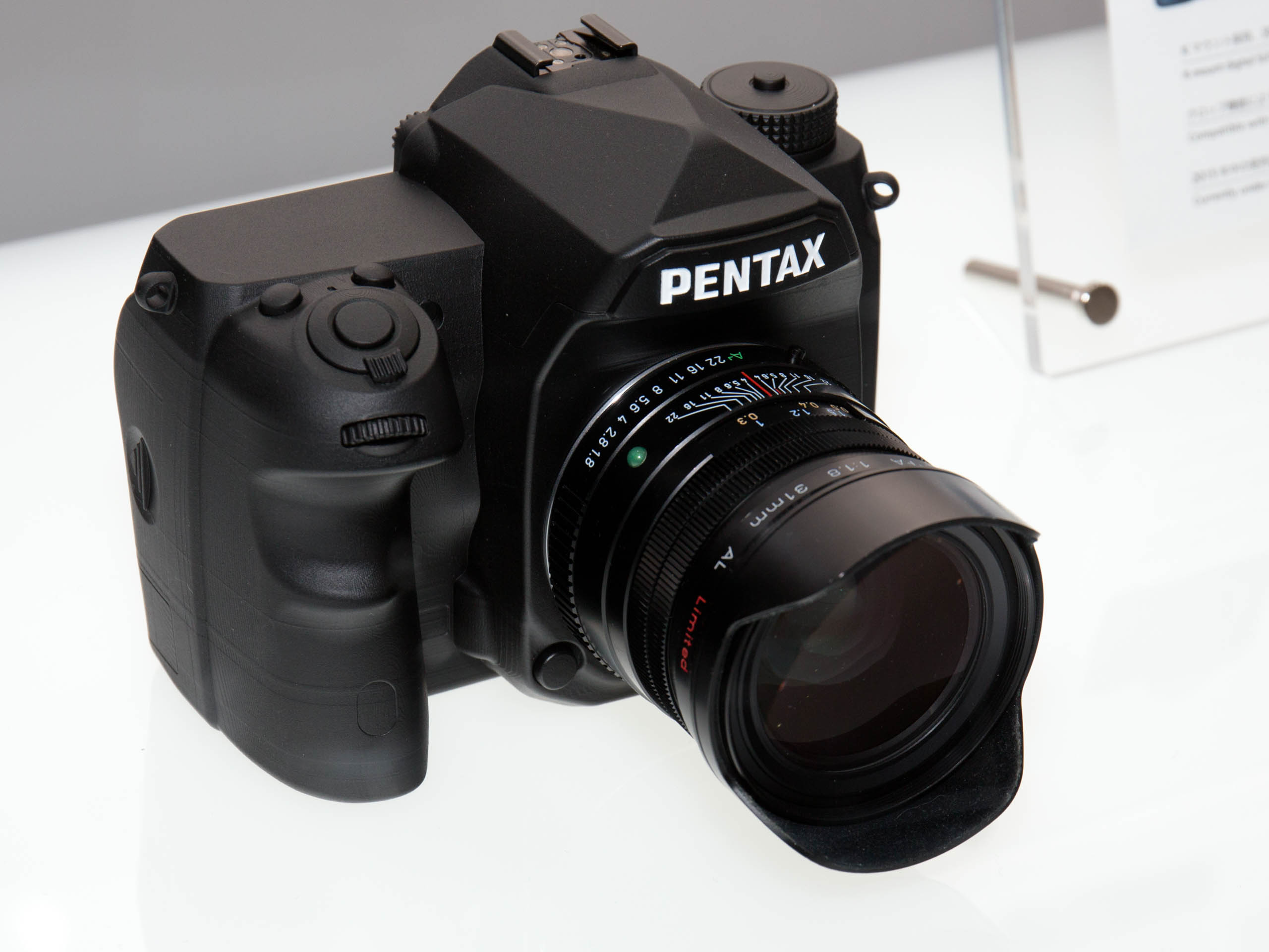 CP+ 2015: 2015 Pentax full-frame DSLR prototype mock-up